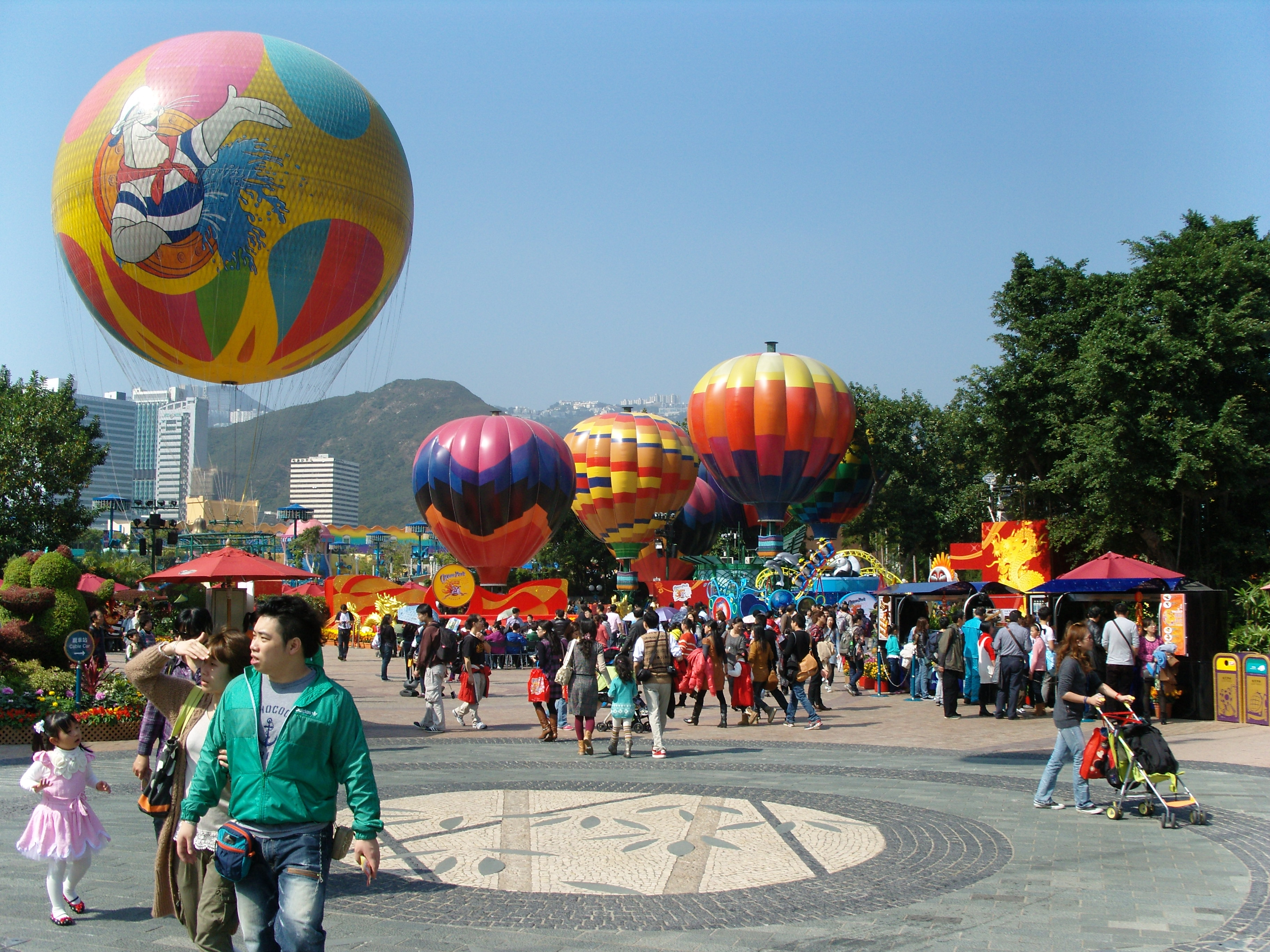 A colourful bunch of hot air balloons gave a festive feel to the Ocean Park that day. The balloon in the immediate foreground bears the Ocean Park logo: a seal in a sailor suit. This is an intersection of sorts, the roundabout embedded on the pavement directs people to various exhibits, which is why this patch looks sort of empty. The crowds were awful actually, see subsequent photos.